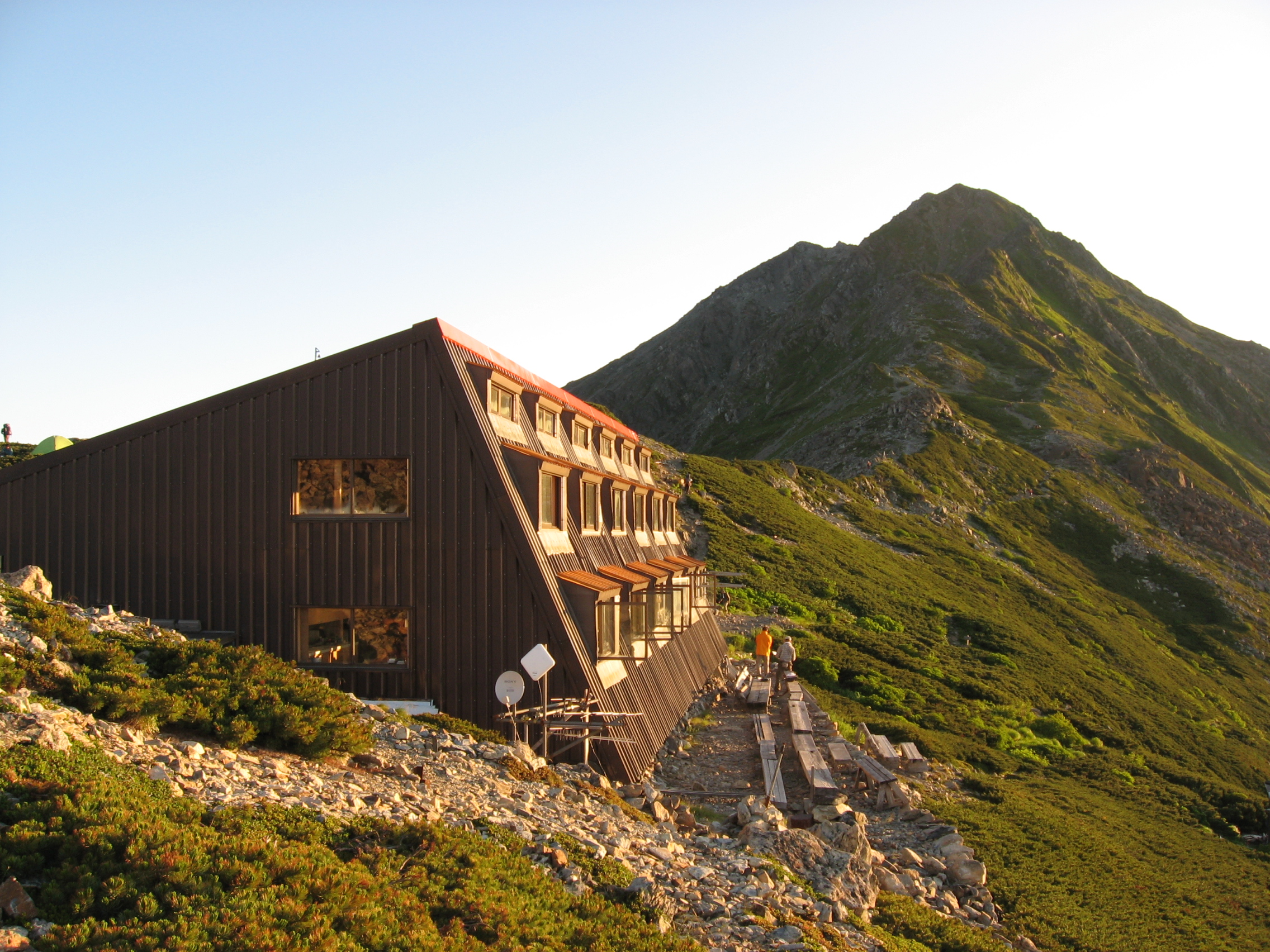 Kitadake Sanso ("Mount Kita Hut") and Mount Kita